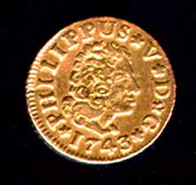 Gold half escudo coin of Philip V of Spain, dated 1743.